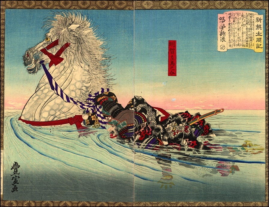 musha-e by Utagawa Toyonobu, series Newly Biography of Taikô (Toyotomi Hideyoshi), 1883